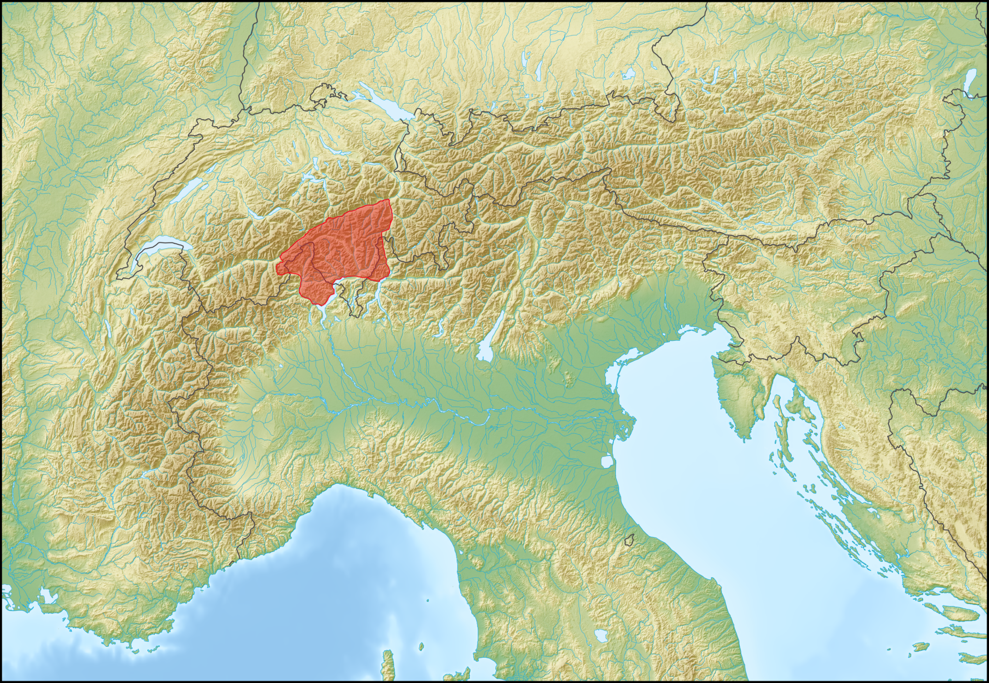 The location of the Lepontine Alps (red) in the Alps.